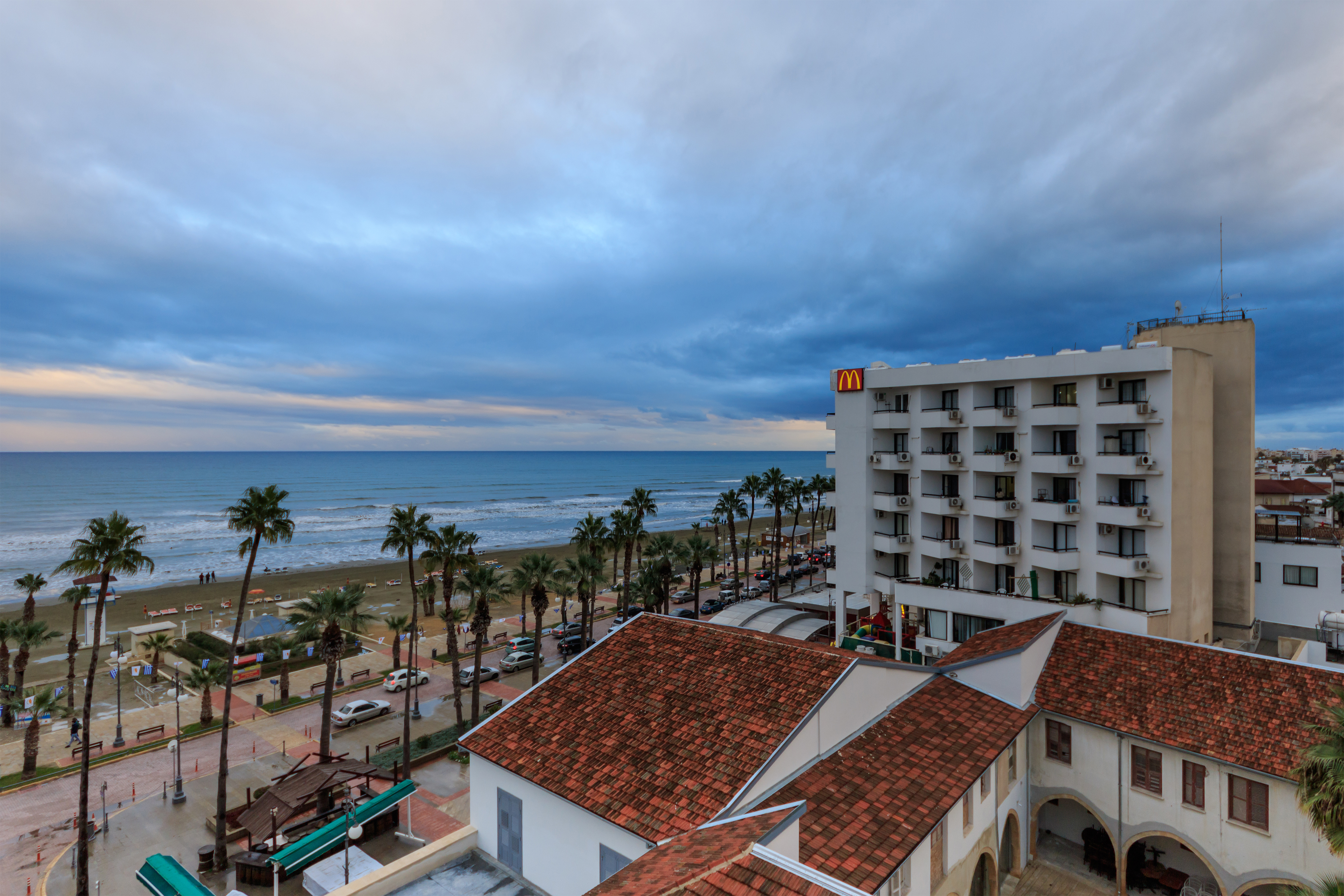 Finikoudes promenade in Larnaca, Cyprus